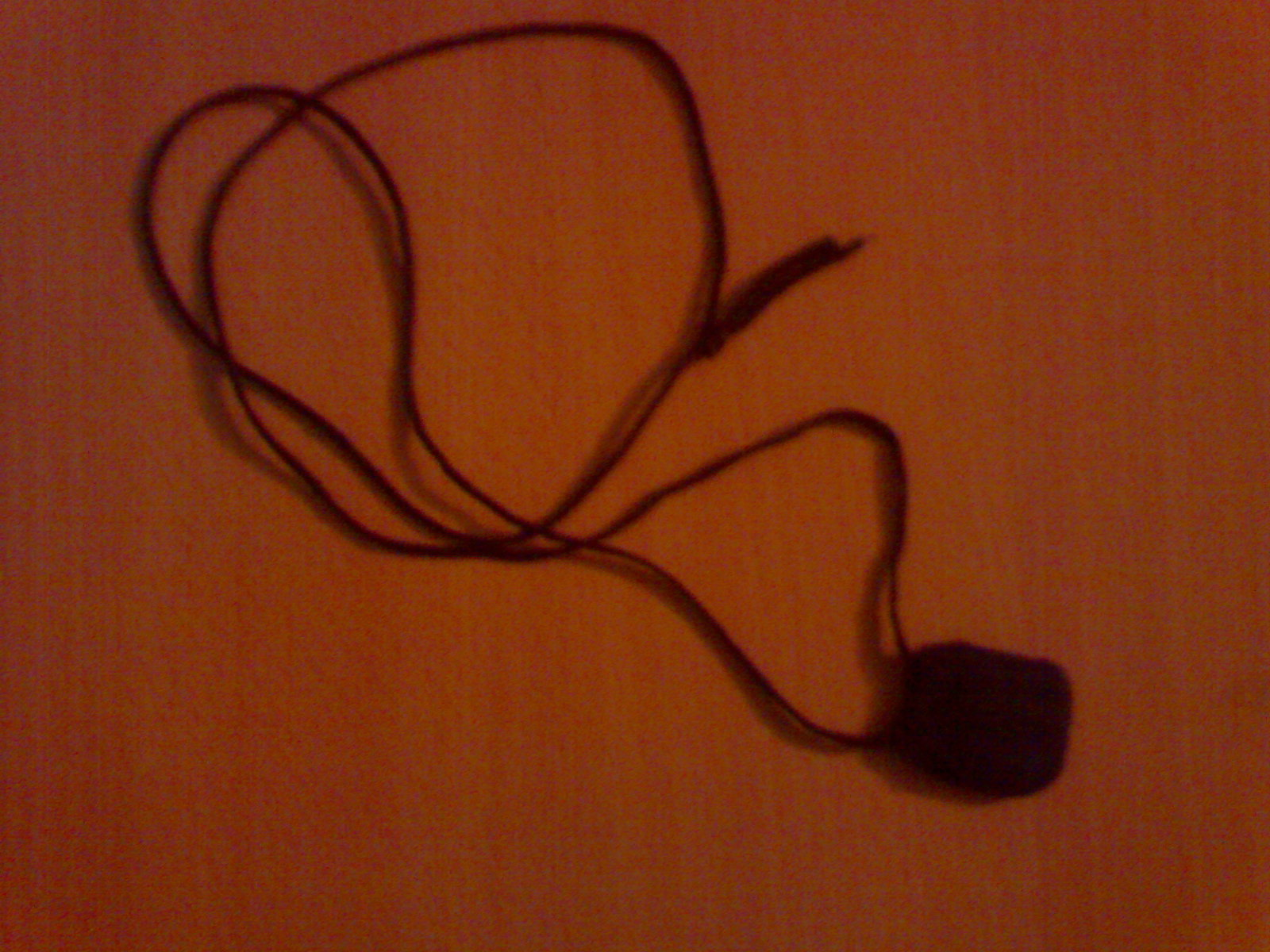 The tawiz is an amulet used by some Muslims to cast off the evil eye.